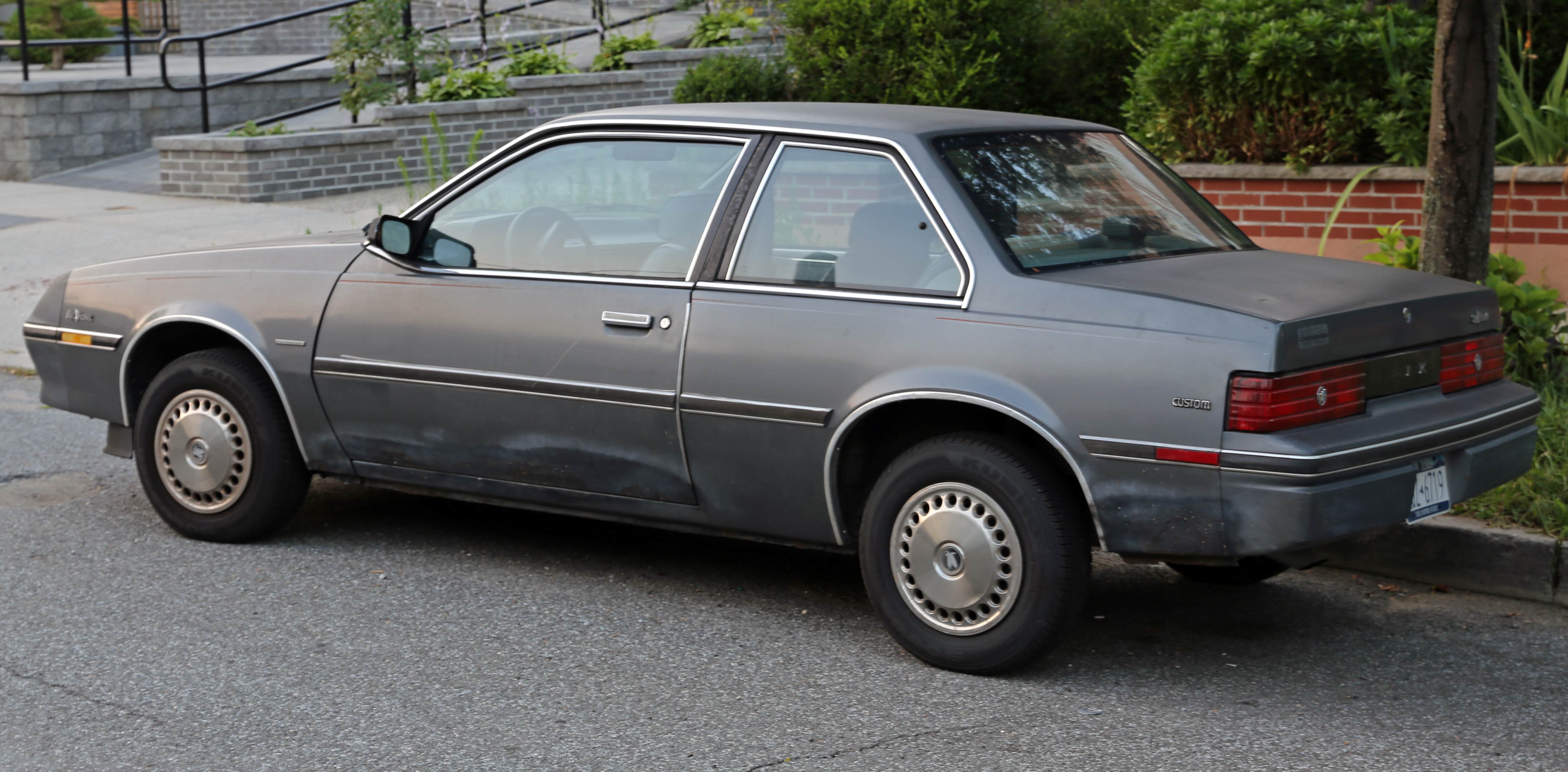 Rear view of 1986 Buick Skyhawk Custom 2-door coupe with the fuel injected 2.0 liter inline-four; built in Leeds, MO.